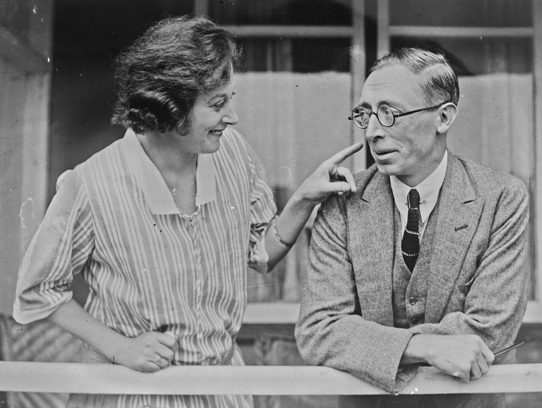 John Henry [Norman Clapham] and Blossom [Gladys Horridge] press photo from Agence Rol